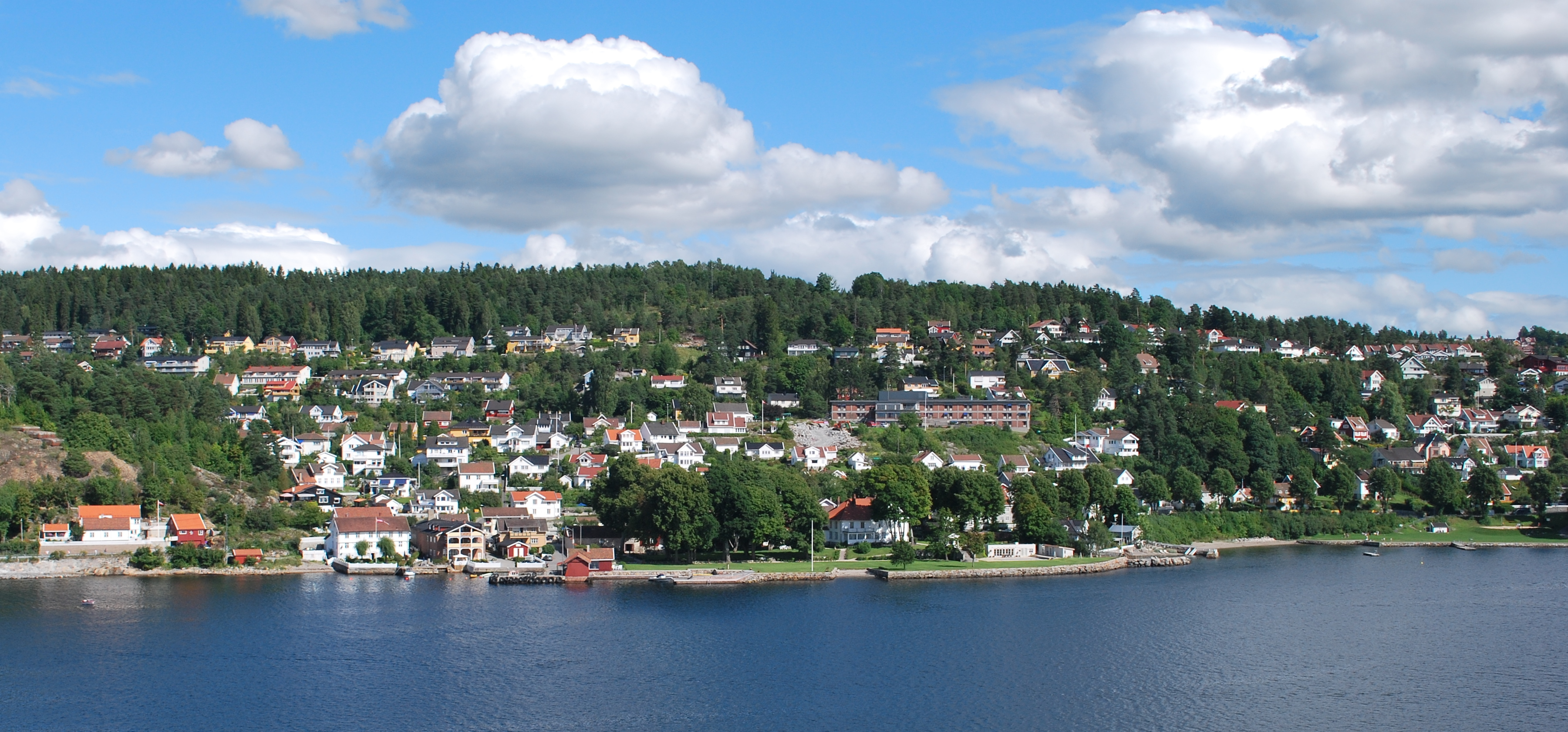 Nordstranda (North Beach), Drøbak, Norway